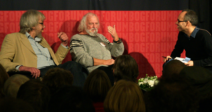 Svend Åge Madsen, Danish writer (center) speaks with friend and collegue Flemming Chr. Nielsen (left) and journalist Klaus Rothstein (right) about his latest book, a large selection of email correspondance from Madsen to Nielsen since 2000 (title in Danish: Når man mailer (eng.transl.: when you mail), a wordplay on the writer Norman Mailer.